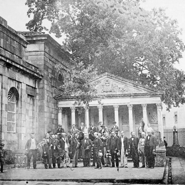 Assembly House of Gernika in 1866